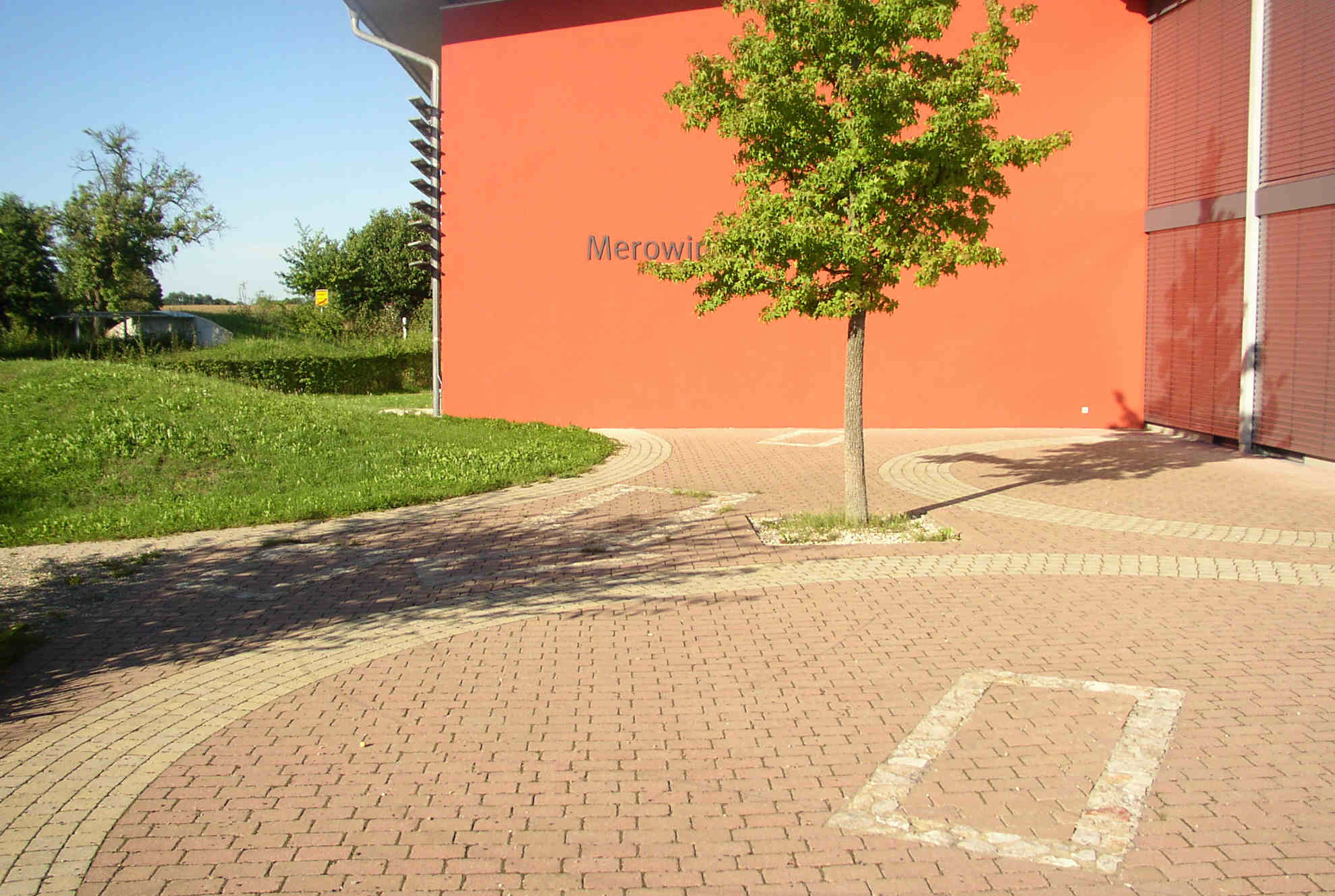 This picture shows a part of the "Merovingian Parc" at Biänge (Biengen). Most of the Alamani gravesite is built over by a hall complex; at the edge a few graves have been covered with glass and preserved. The cirles on the pavement show the extent of former gravesites; one of them has been restored and planted over. The position of former stone graves is also marked on the pavement.